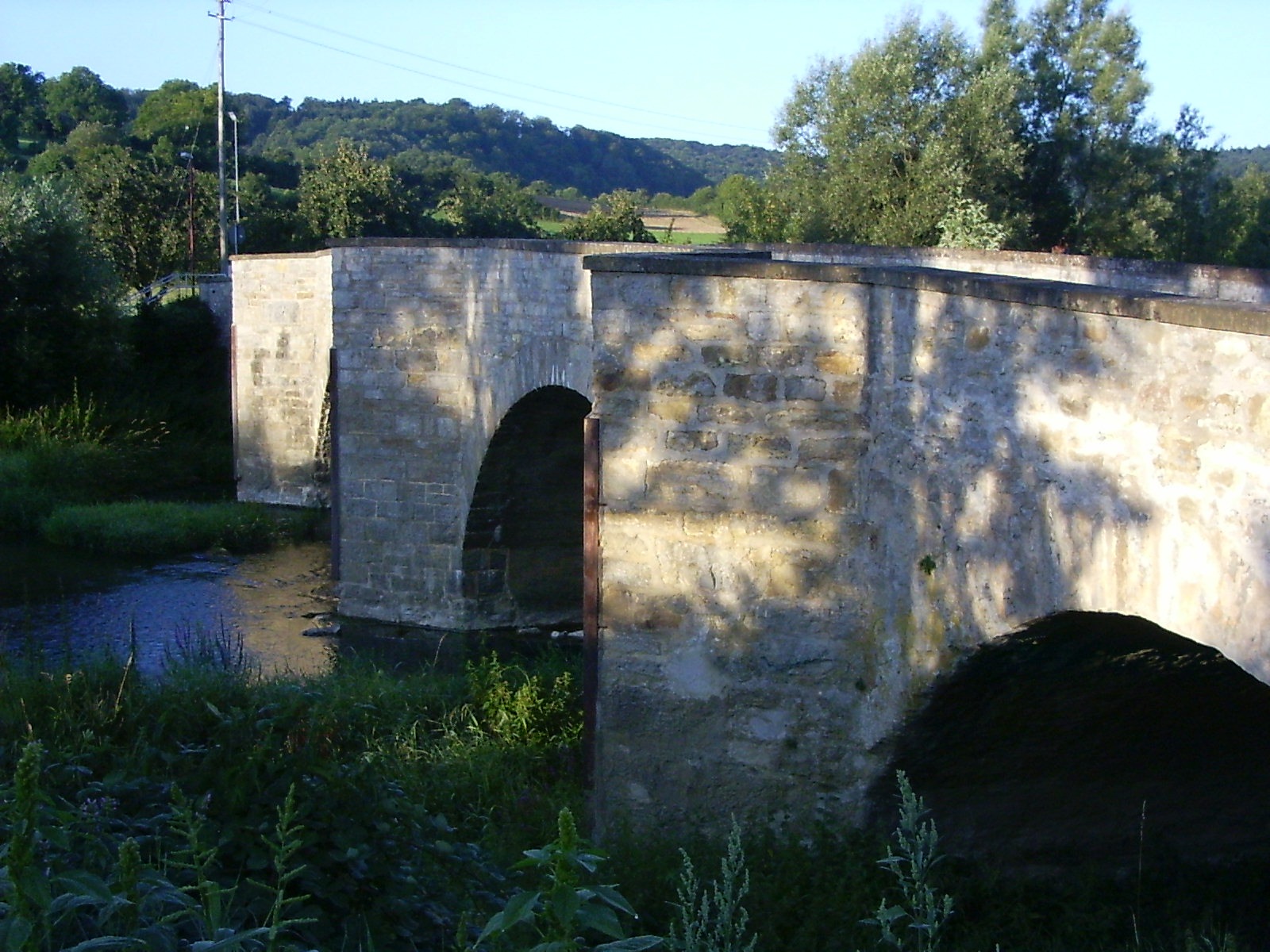 Olnhausen, bridge across the Jagst